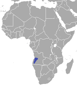 Blackish White-toothed Shrew (Crocidura nigricans) range